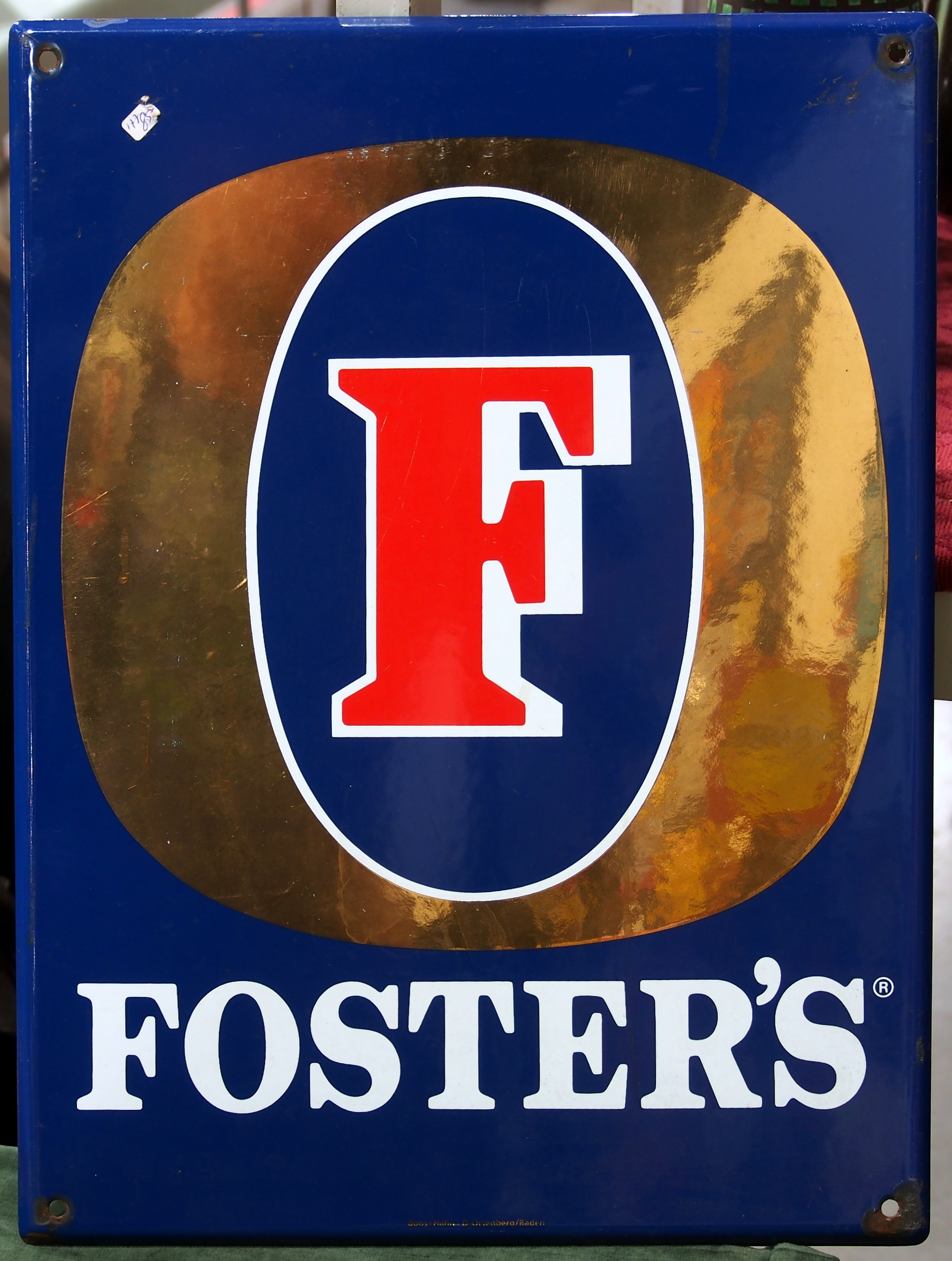 Photographed at Jaarbeurs Utrecht.